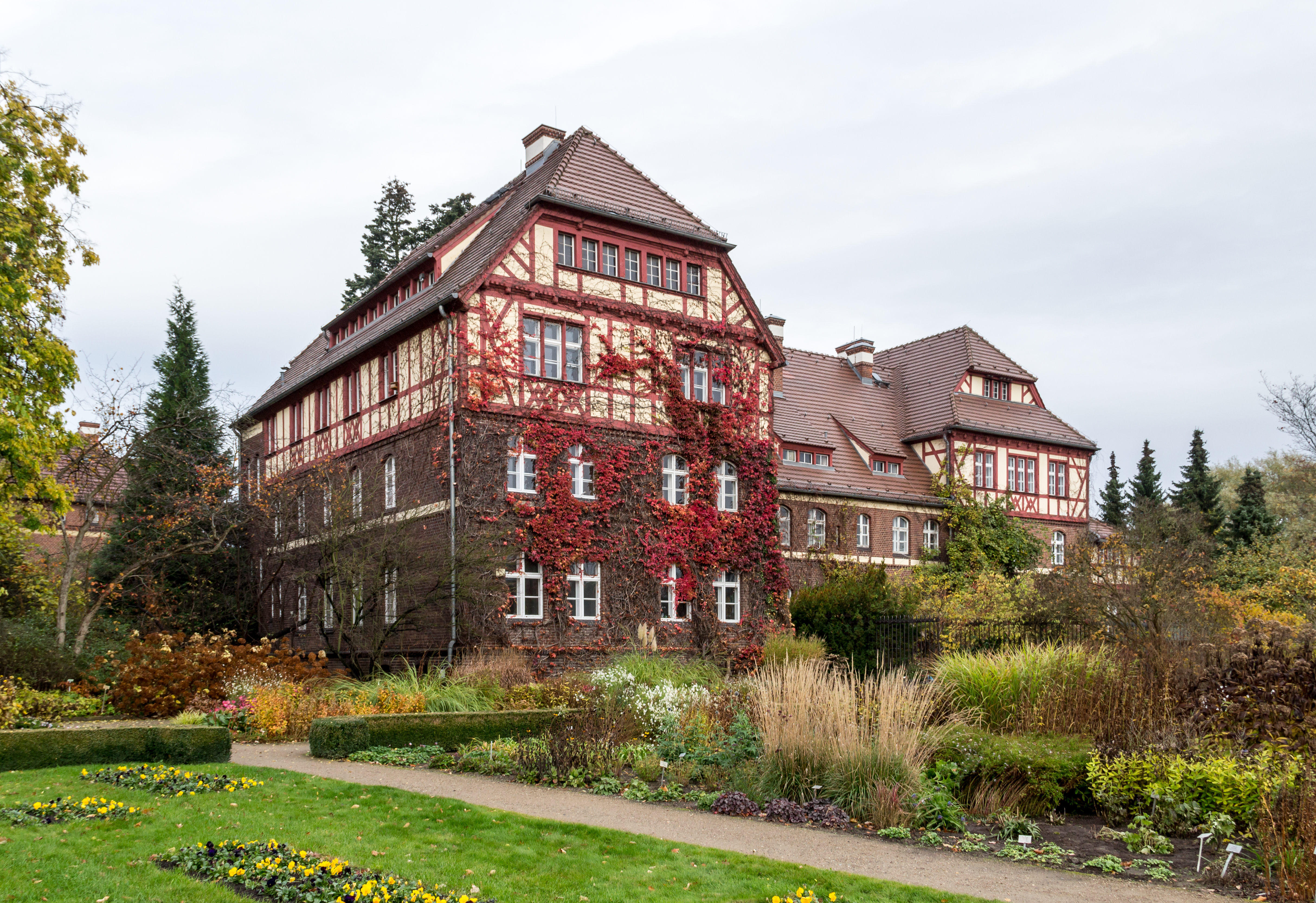 Botanical garden, Berlin, Germany